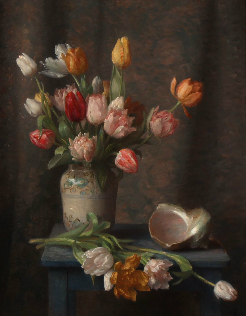 Still Life with Flowers